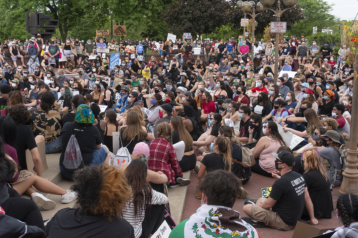 Black Lives Matter Rally for BLACK LIVES in South Bend, IN, June 5, 2020